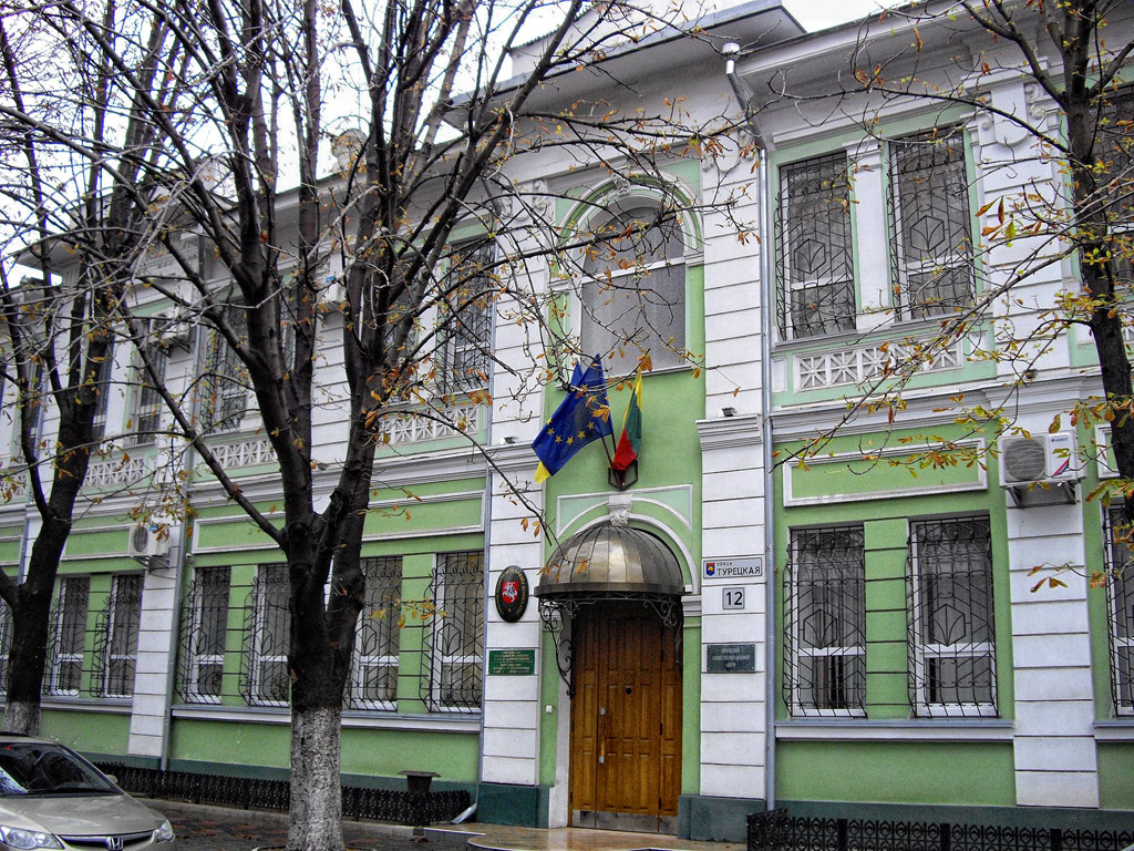 Consulate REPUBLIC OF LITHUANIA in Simferopol. ЛИТОВСКОЙ РЕСПУБЛИКИ ПОЧЕТНОЕ КОНСУЛЬСТВО